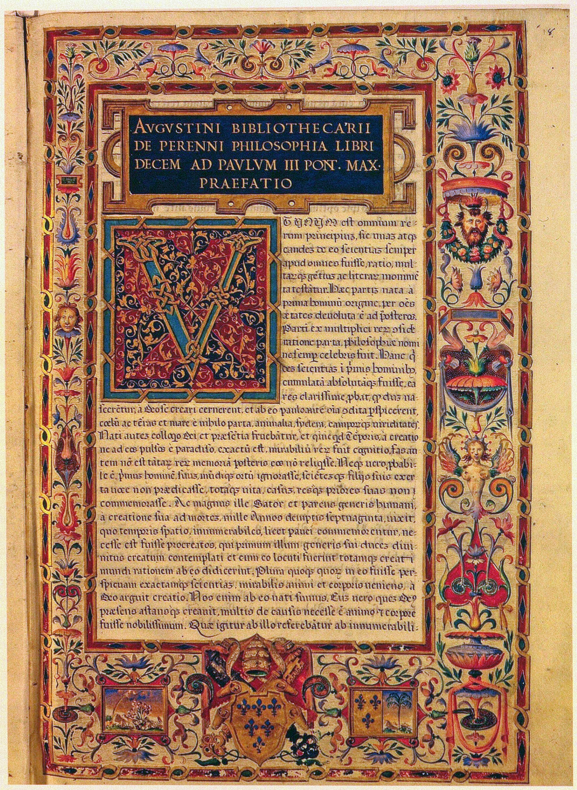 The beginning of Steuco’s preface to his “De perenni philosophia” in the dedication copy for Pope Paul III, the manuscript Vatican City, Biblioteca Apostolica Vaticana, Vat. lat. 6377, fol. 18r.